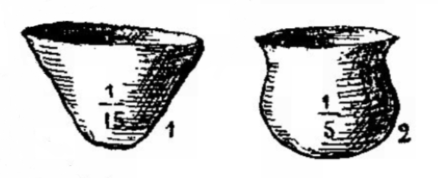 Voutenay-sur-Cure, Yonne, Burgundy, France.